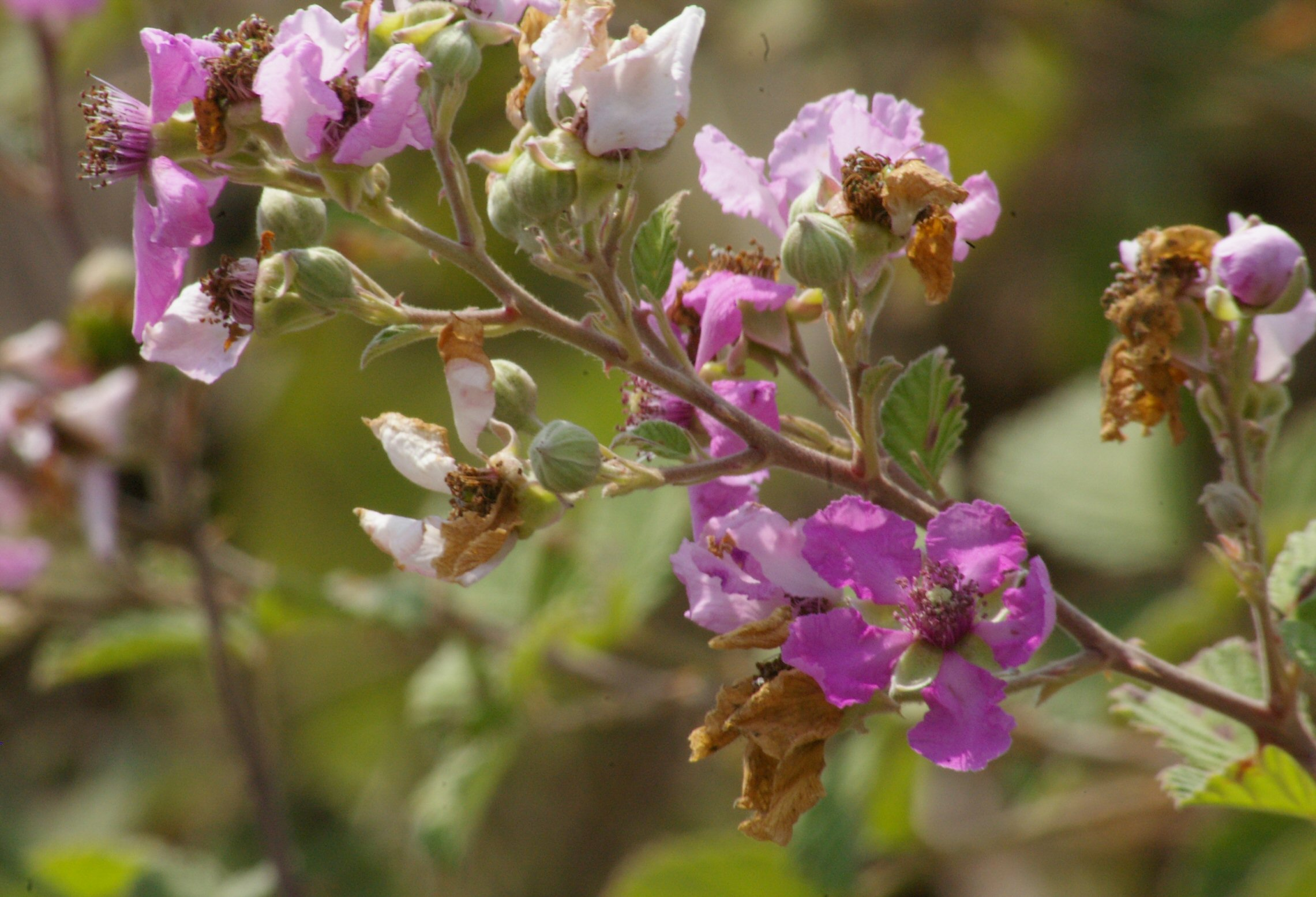 Rubus sanguineus, wild raspberry, in a rivulet in the eastern Carmel hills.